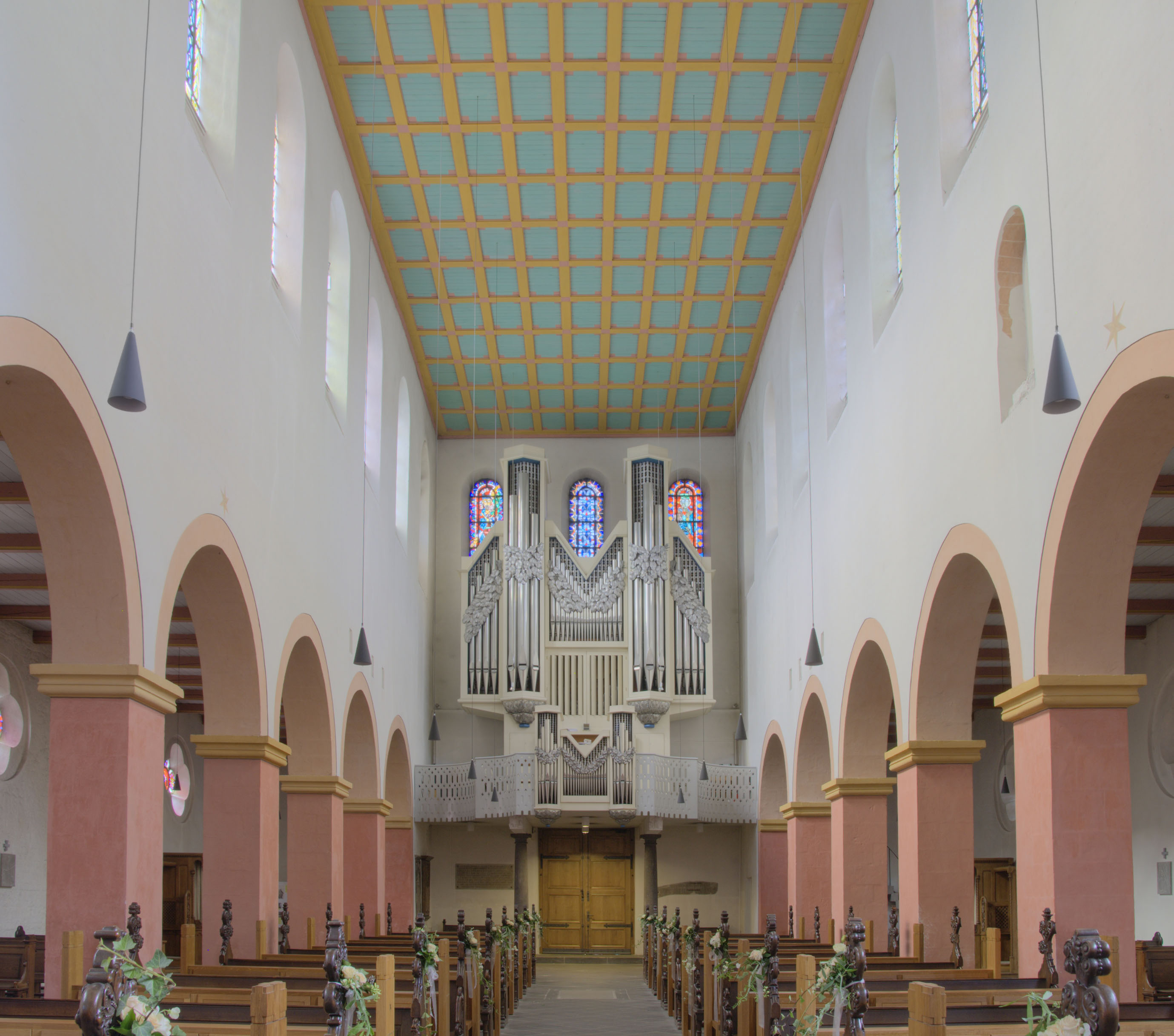 St Suitbertus church in Kaiserswerth/Düsseldorf, Germany. Nave, looking west.